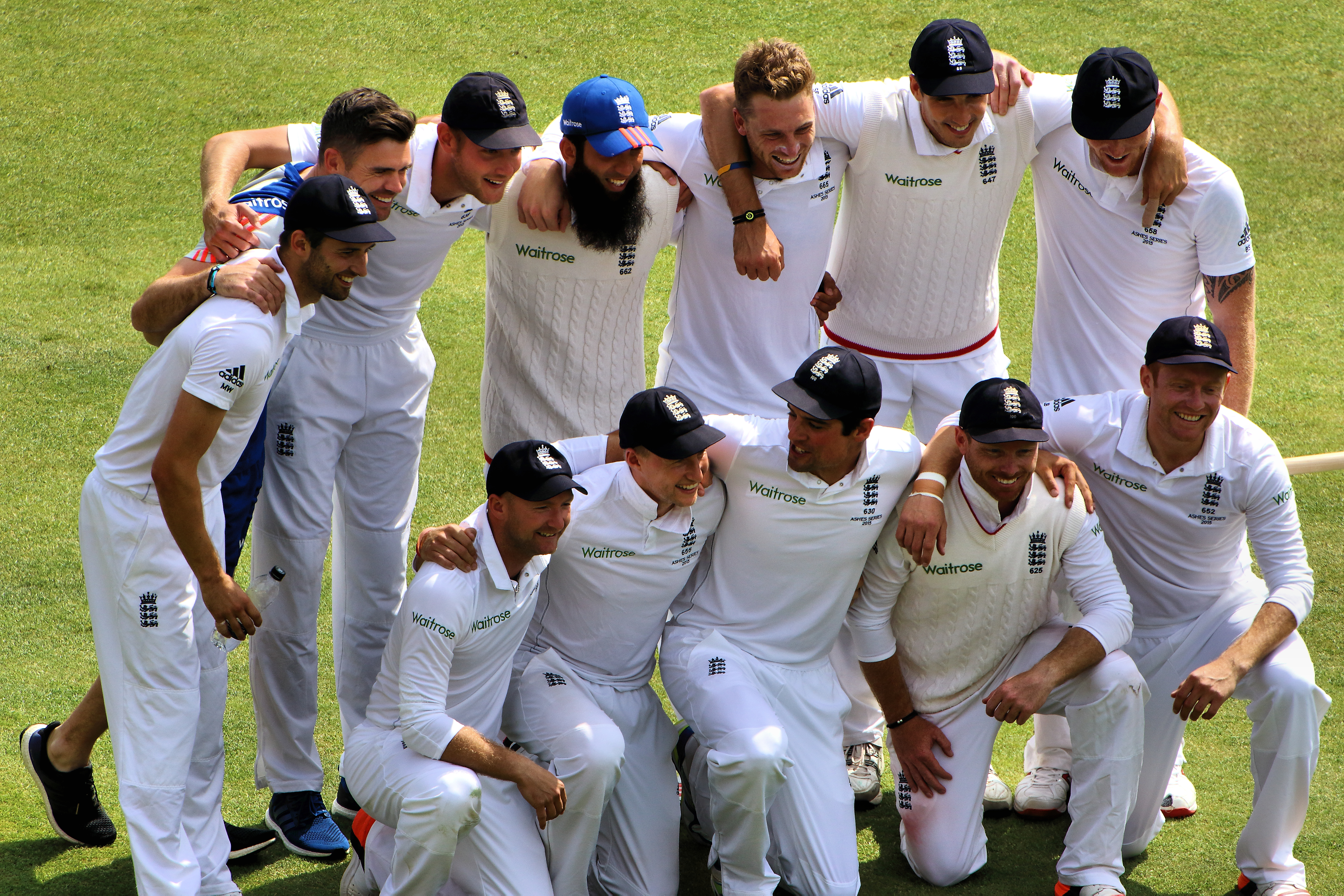 England Cricket Team - The Ashes Trent Bridge 2015